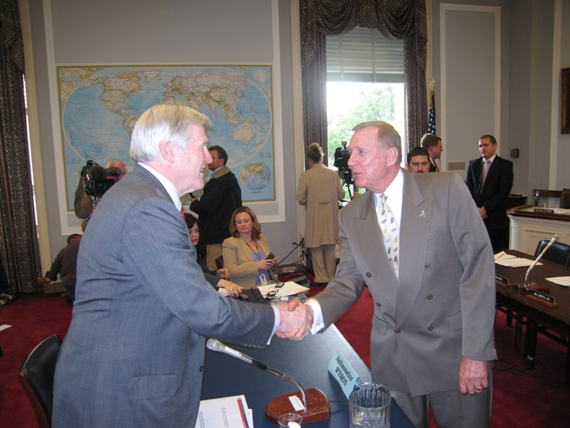 5/25/06 - Ambassador Michael Wilson with Chairman Dan Burton at today's U.S. - Canada Hearing